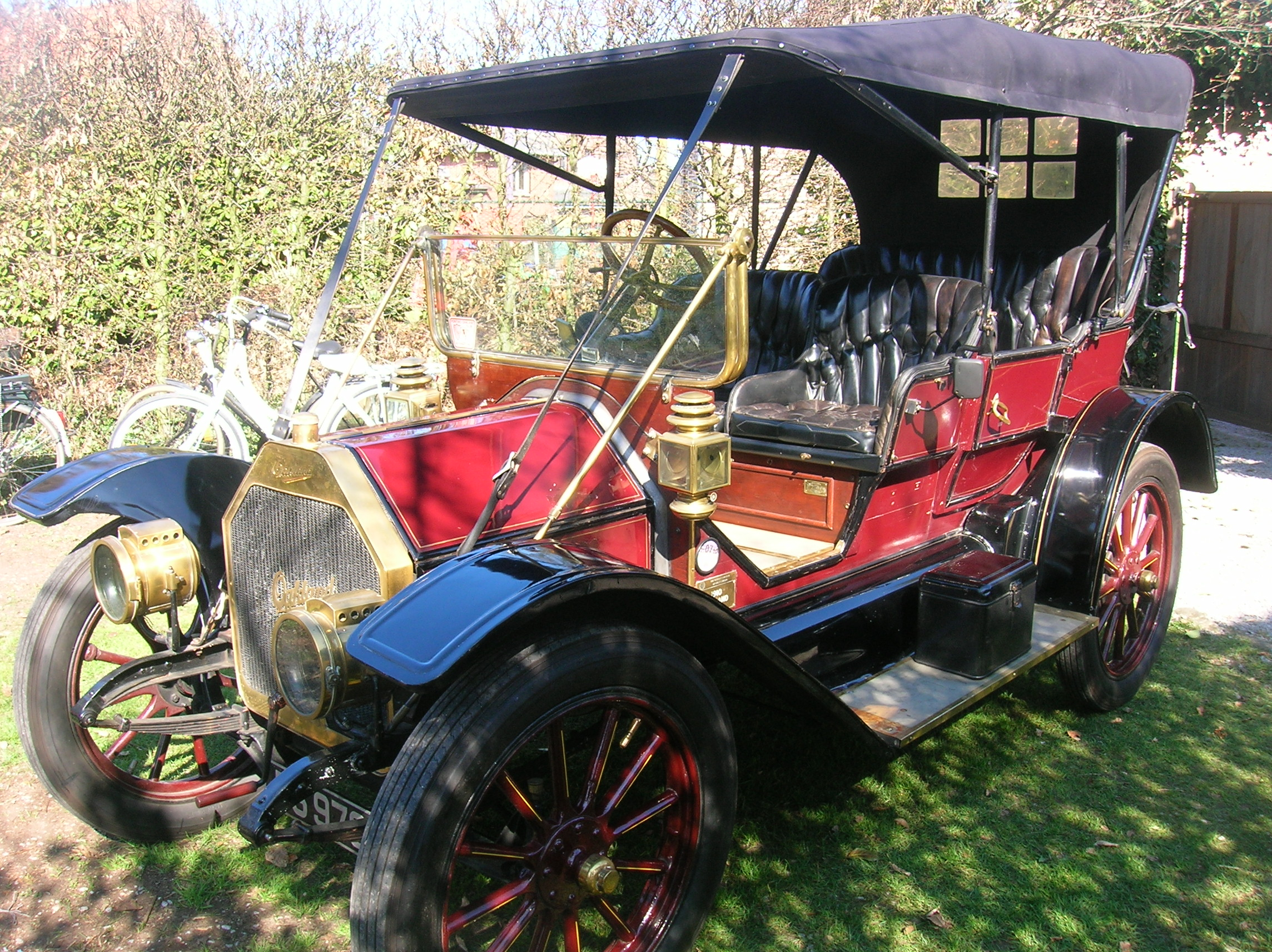 oakland currently riding in Belgium, good driver with 45 horsepower.